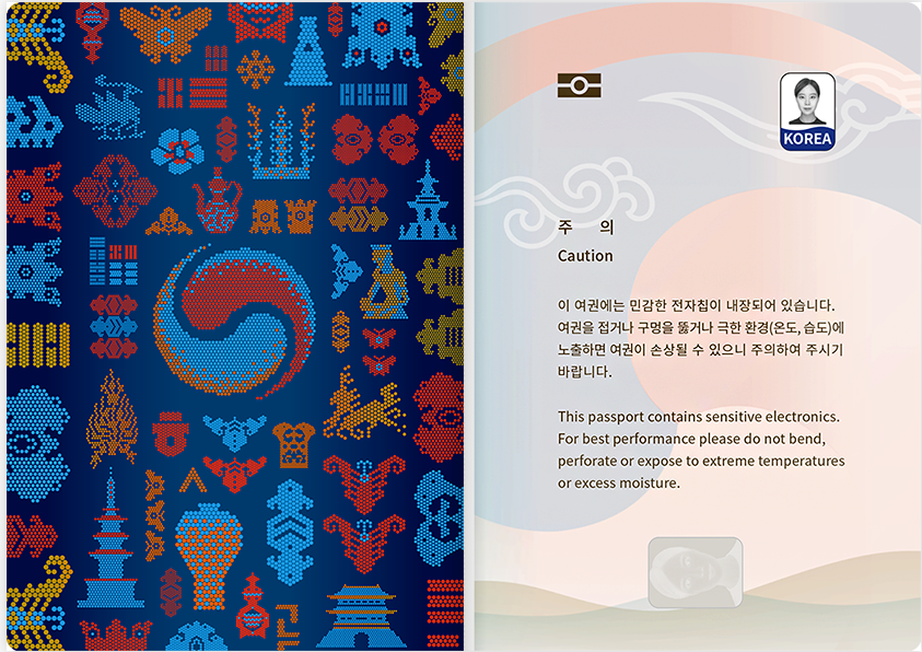 Usage Tips Page of the South Korea E-Passport (2020 Edition)